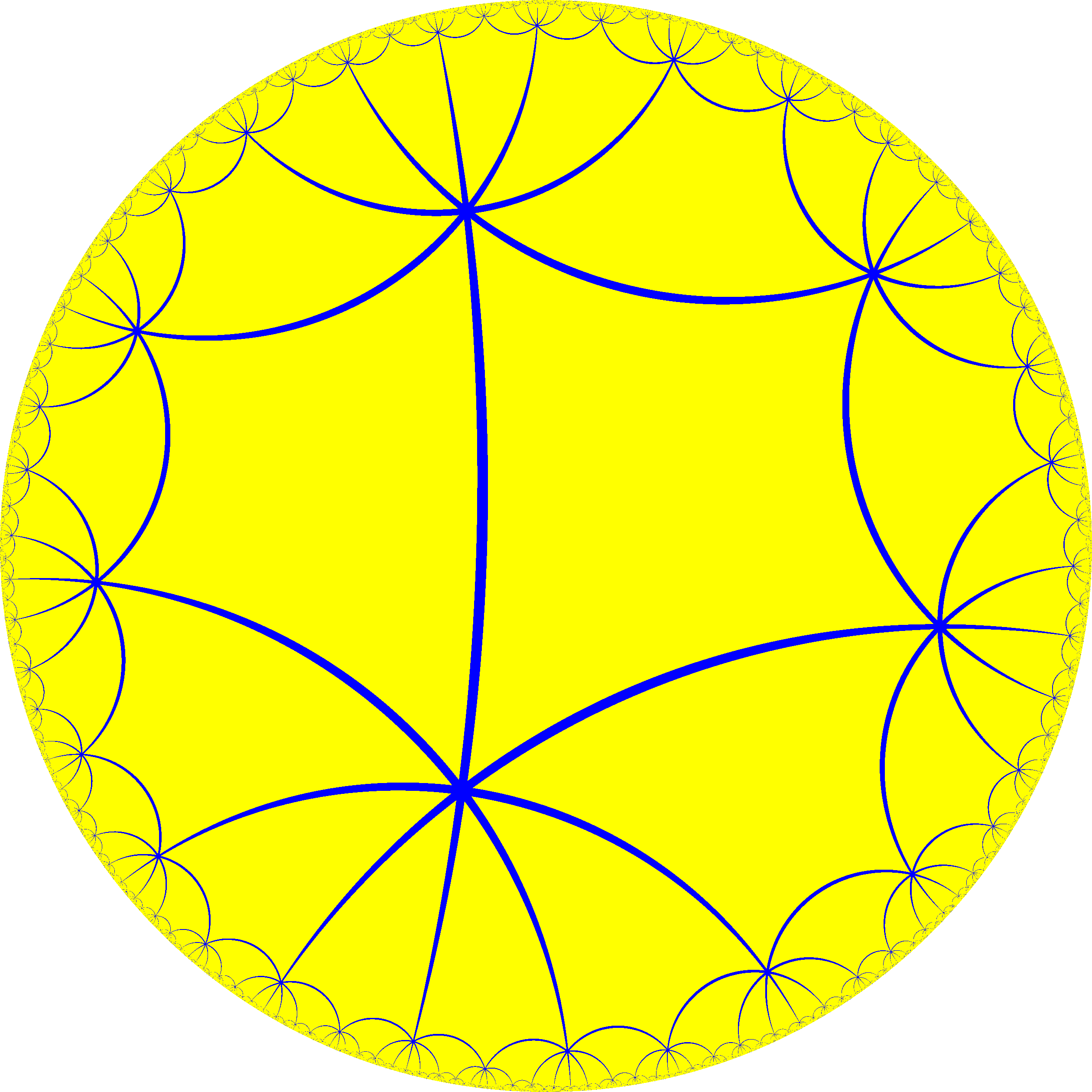 Regular tiling of hyperbolic plane by quadrilaterals, x4o8o. Generated by Python code at User:Tamfang/programs. Equivalent: Dual